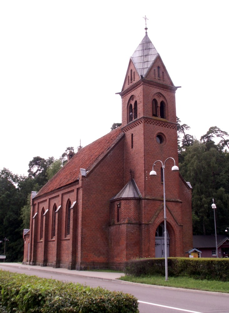 Evangelical Lutheran Church in Juodkrantė, Lithuania